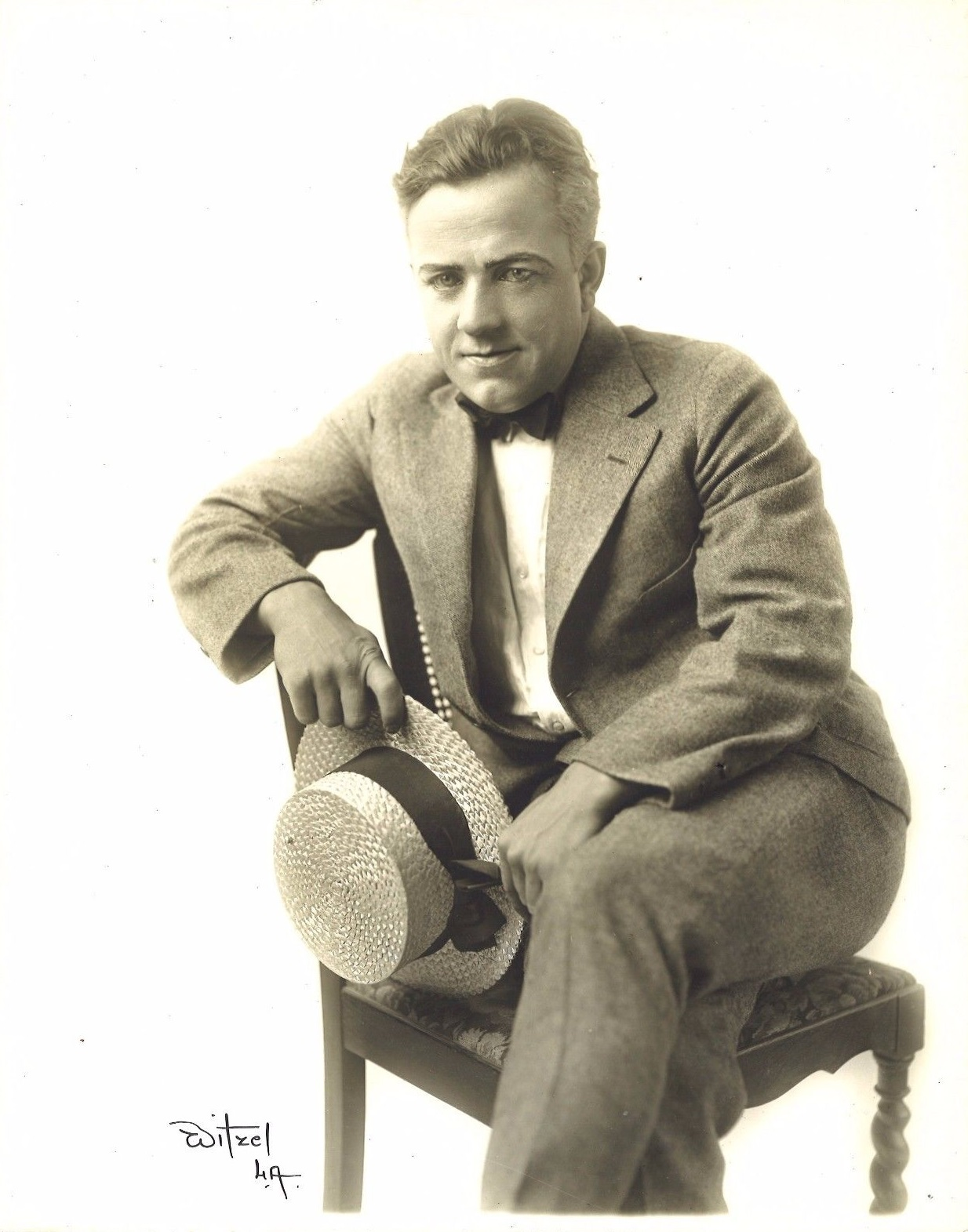 Portrait of American actor Shorty Hamilton (1879-1925) by American photographer Albert Aitzel (1879-1929).